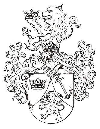 Coat of Arms of the german family „von Spankeren“